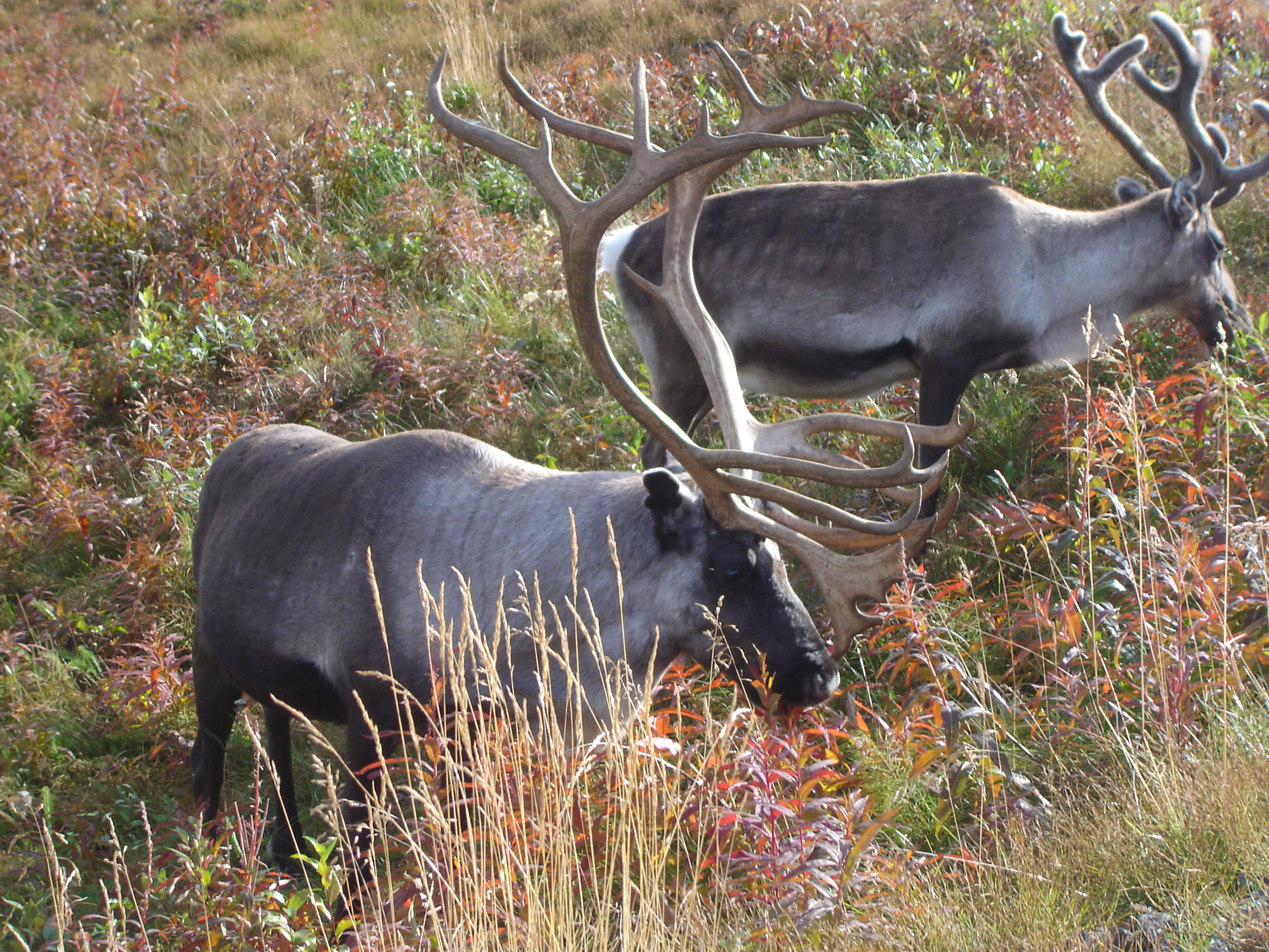 Reindeer at National Road 21 south of Kilpisjärvi, Lapland, Finland